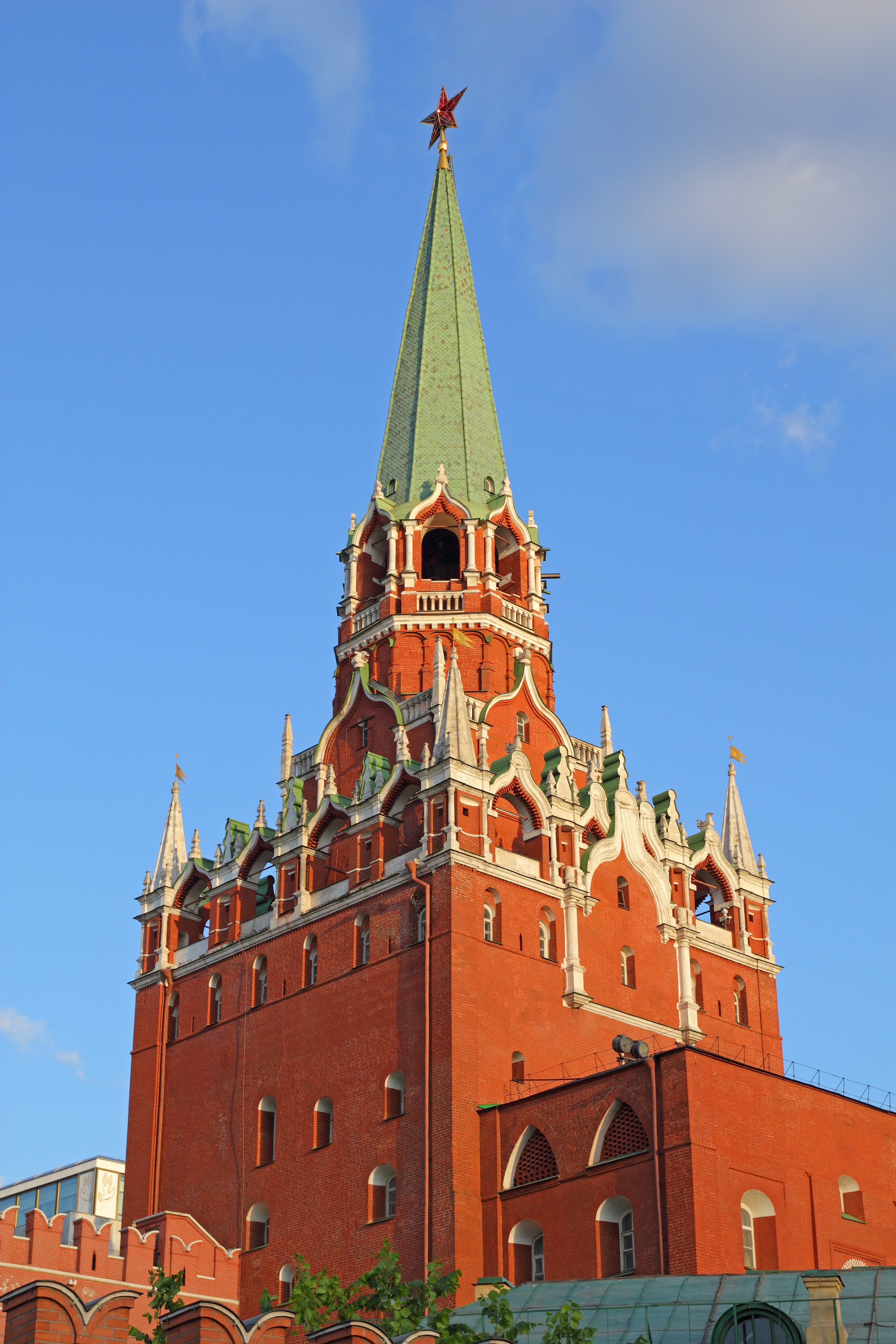 Moscow, Russia. Troitskaya (Trinity) Tower of the Moscow Kremlin.